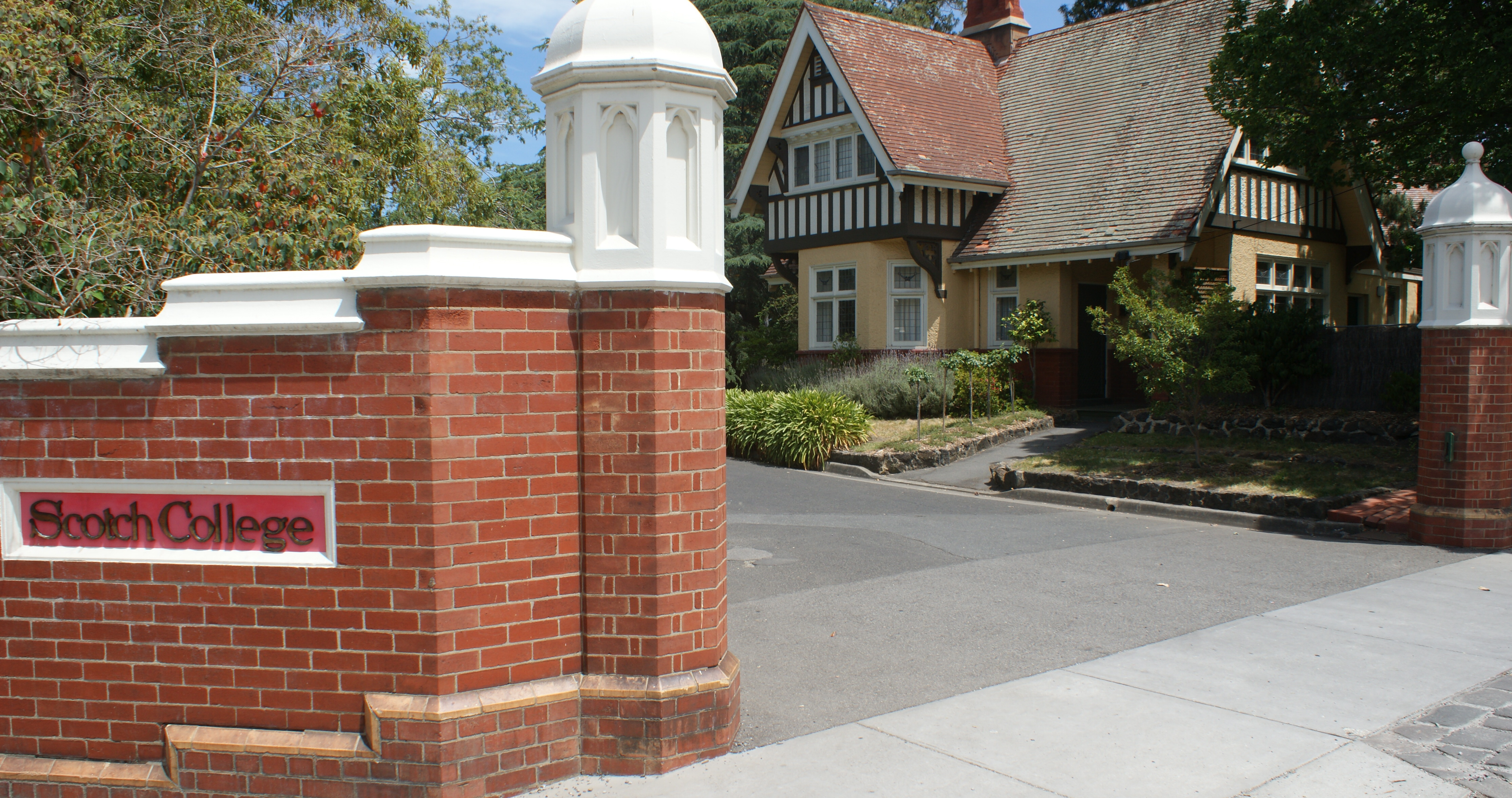 The Callantina Gatehouse, entrance to the boarding precinct at Scotch College Melbourne